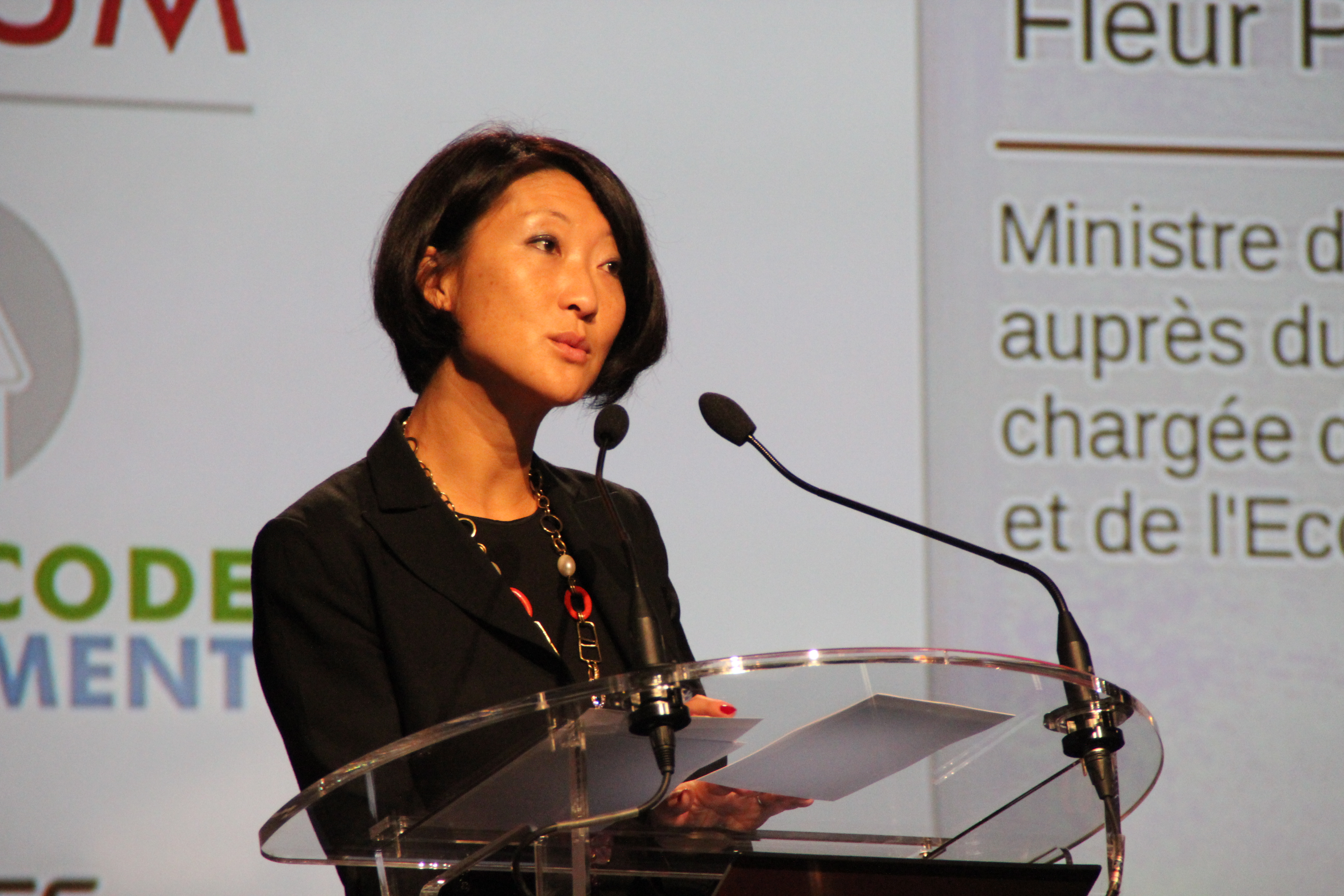 Fleur Pellerin during the Open World Forum.